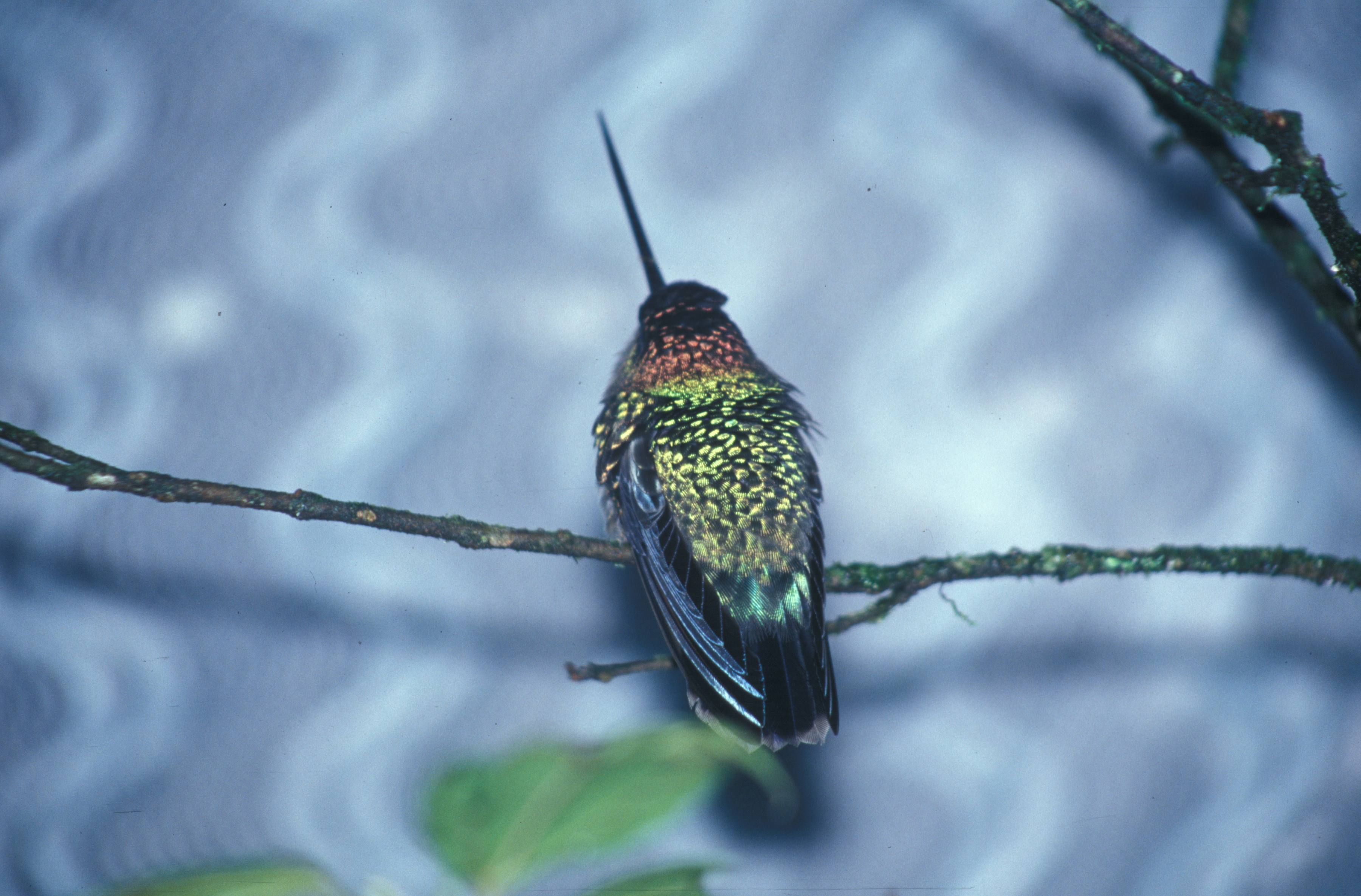 Green-fronted lancebill (Doryfera ludovicae) at Cordillera del Cóndor, Centro Shuar Warintz, Ecuador.